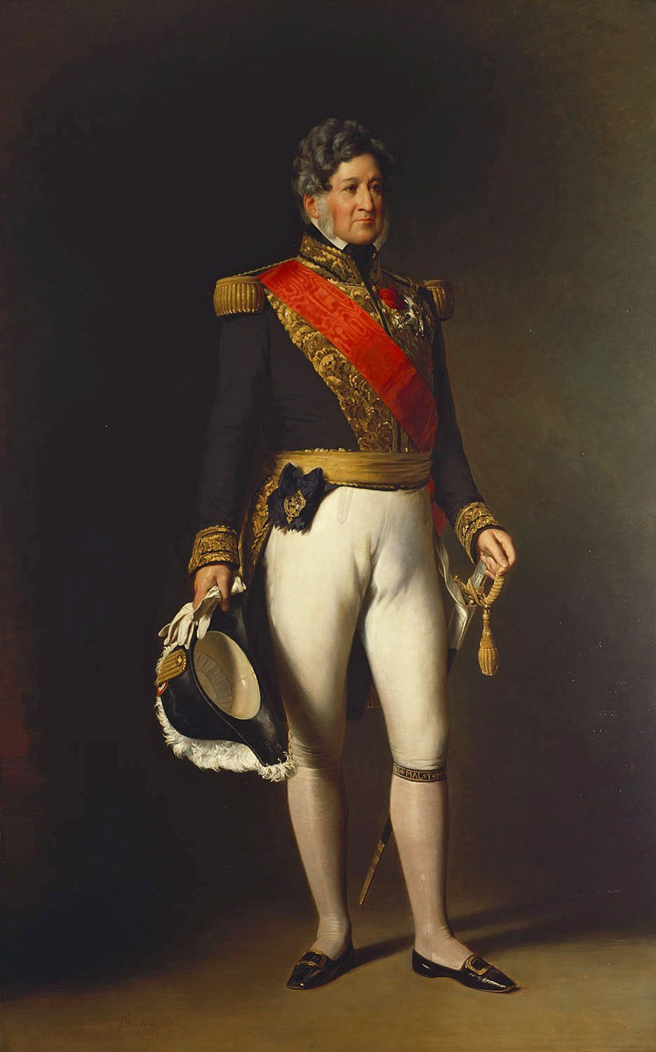 Portrait of Louis-Philippe, King of the French